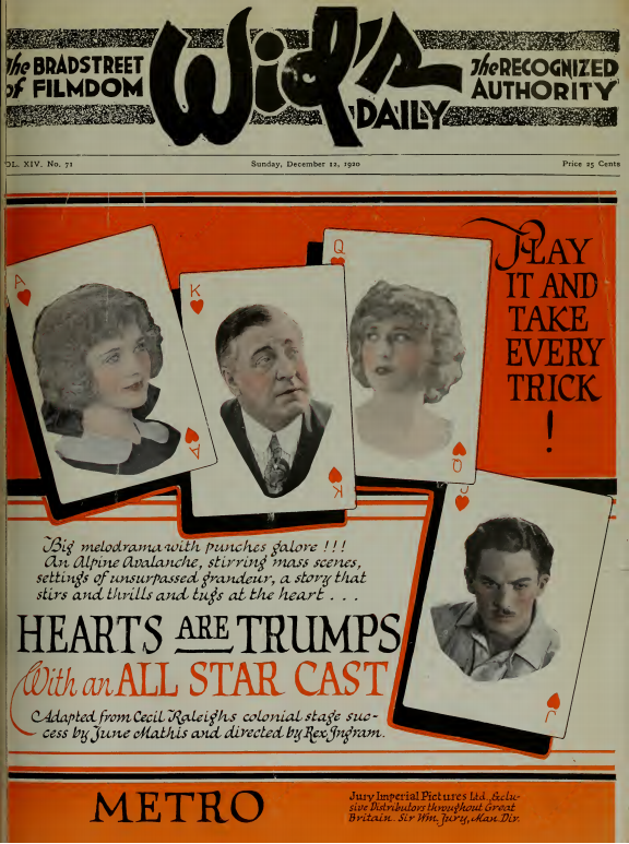 Advertisement for the American drama film Hearts Are Trumps (1920), directed by by Rex Ingram.